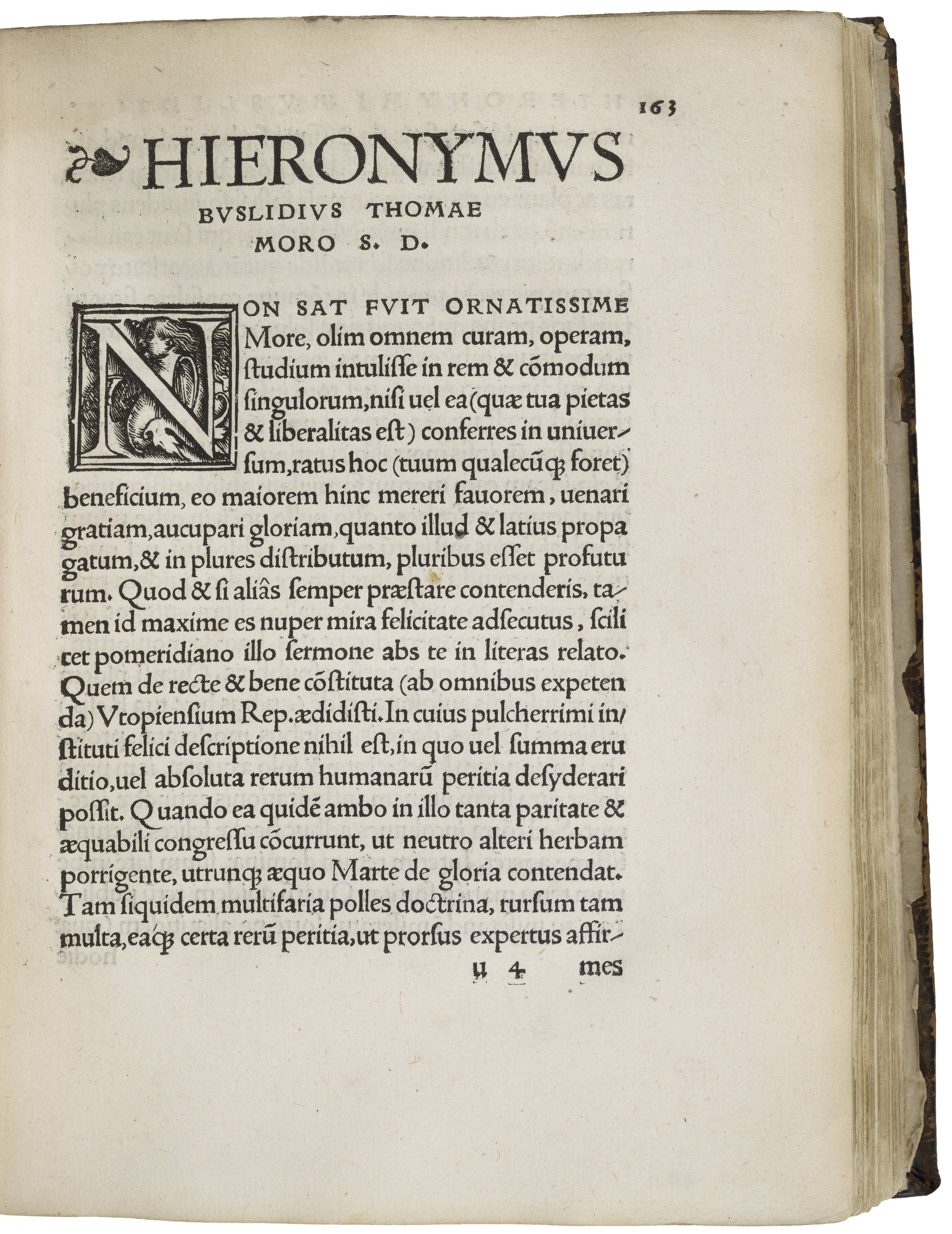 This is the first page of J. Busleyden's letter written to Thomas More (Utopia, november 1518)